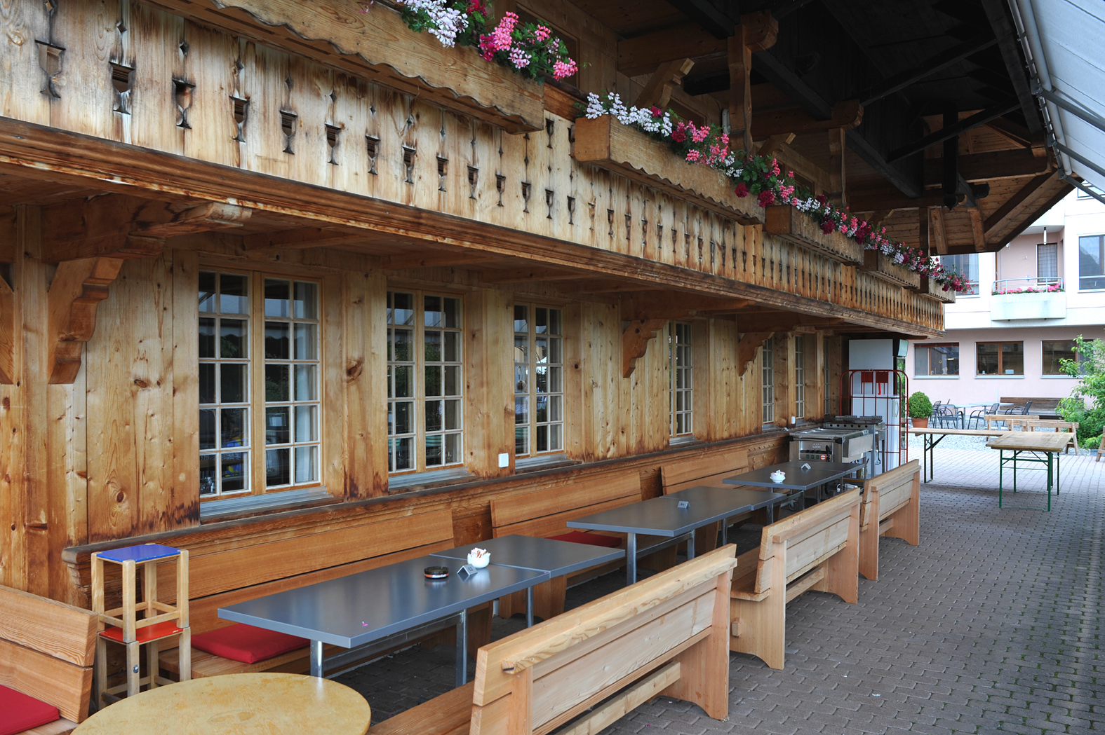 Ruettihubelbad near Worb, restaurant; Berne, Switzerland.